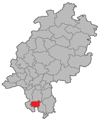 Map of the district court Bensheim in Hesse